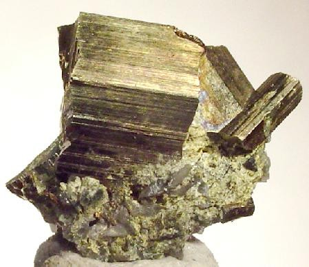 Cubanite Locality: Chibougamau, Nord-du-Québec, Québec, Canada (Locality at ) A SUPER thumbnail cluster of lustrous, striated, brass-yellow, cyclically-twinned cubanite crystals nicely perched on a bit of matrix from the famous and now closed Chibougamau mines of Quebec. The mines there produced the worlds finest cubanite specimens and this is classic material. 1.5 x 1.3 x 1.0 cm